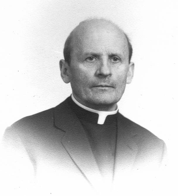 Fr. Tamash Padziava Беларуская (тарашкевіца): айцец Тамаш Падзява